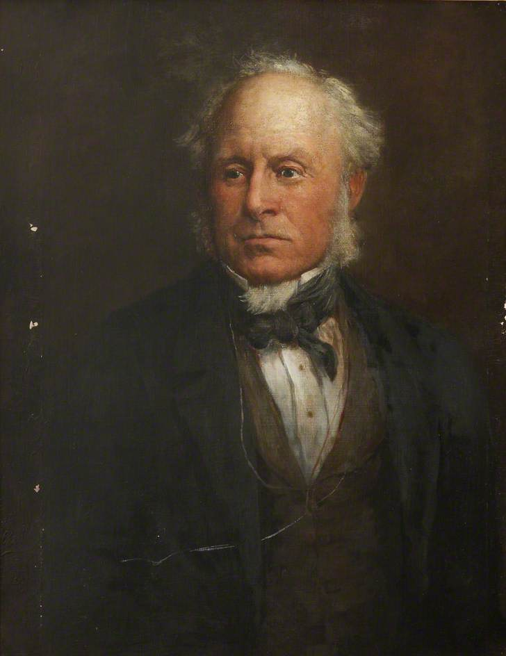 Oil portrait of Baldwin Leighton by an unknown artist